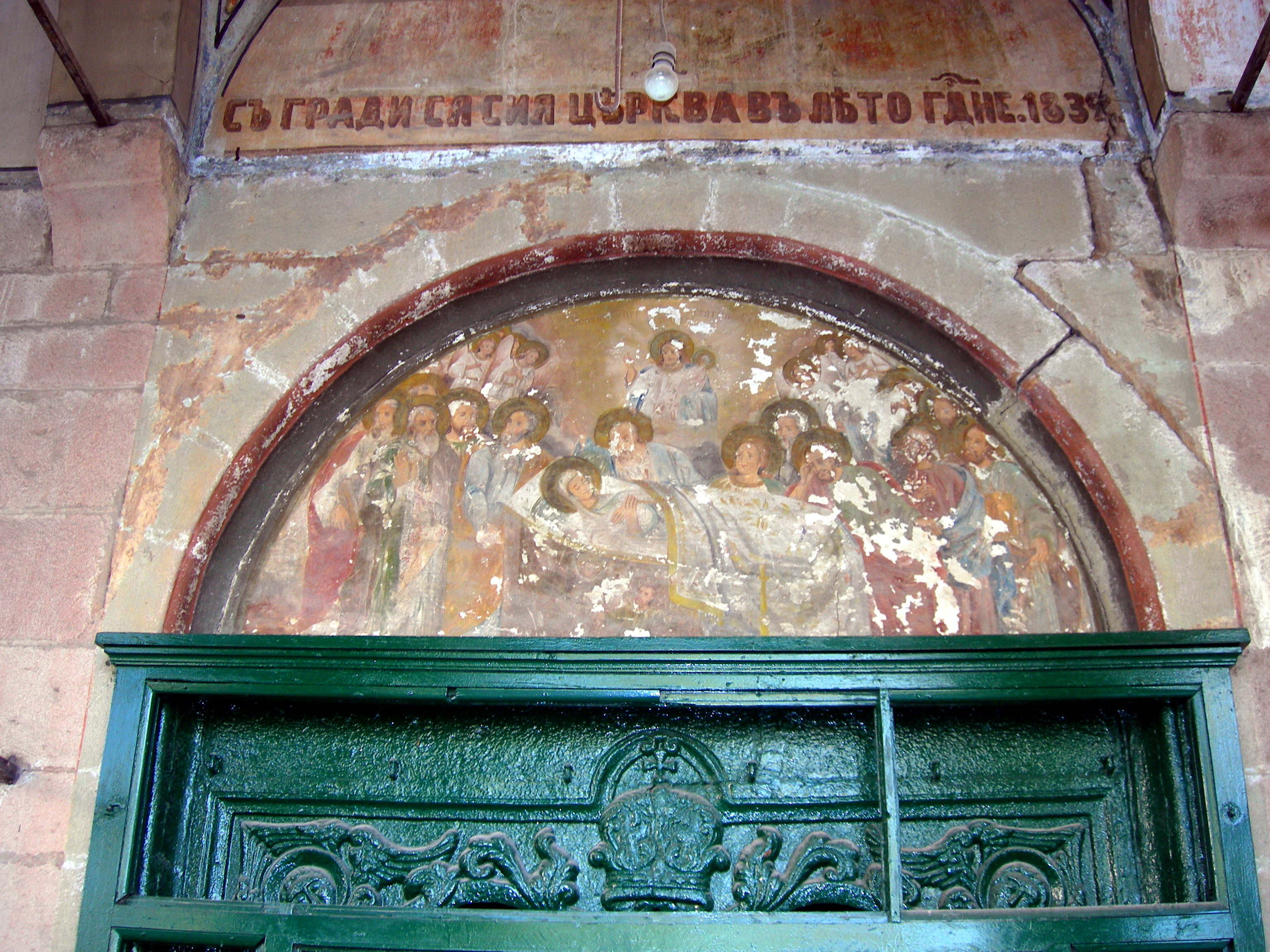 Front entrance of Mother of God Church